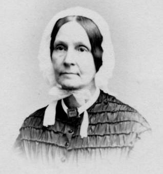 Title Margaretta Elizabeth (Lammot) du Pont Date Created (approximate) 1862 Photographer Torbert, J. E., photographer Former owner Du Pont, Pierre S. (Pierre Samuel), 1870-1954 Note Old ID number: P_D938 m/e/l Subject(s) Women Subject(s) - Name Du Pont, Margaretta Lammot, 1807-1898 Find all items with name(s) Torbert, J. E., photographer Du Pont, Pierre S. (Pierre Samuel), 1870-1954 Du Pont, Margaretta Lammot, 1807-1898 Genre portrait photographs Language English Type of resource still image Extent 1 photographic print : b&w